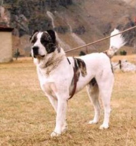 This is Georgia Shepherd